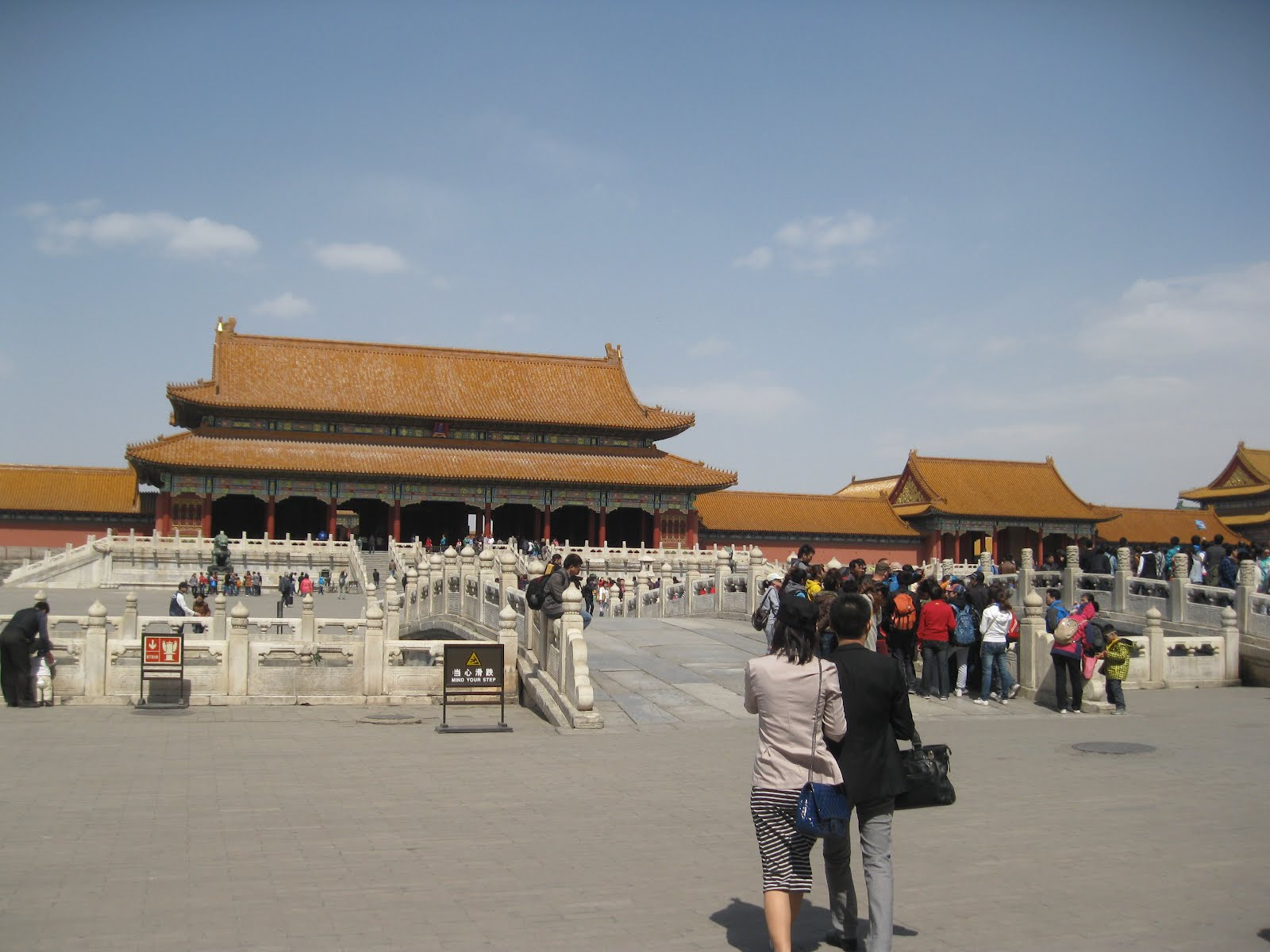 Forbidden City ovedc (2).JPG